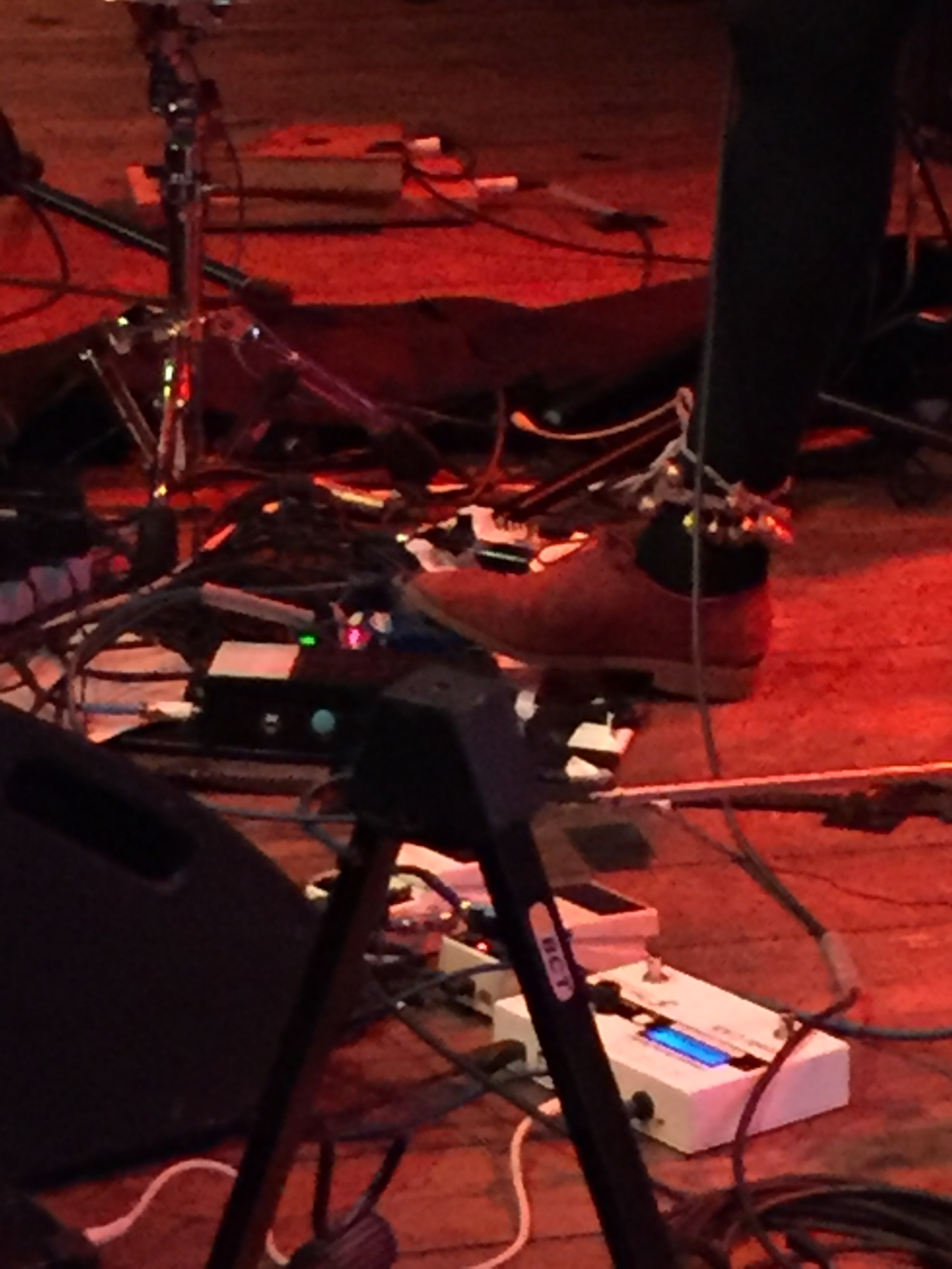 French-Brazilian cellist, composer, singer Dom La Nena uses several looping pedals to create her music.